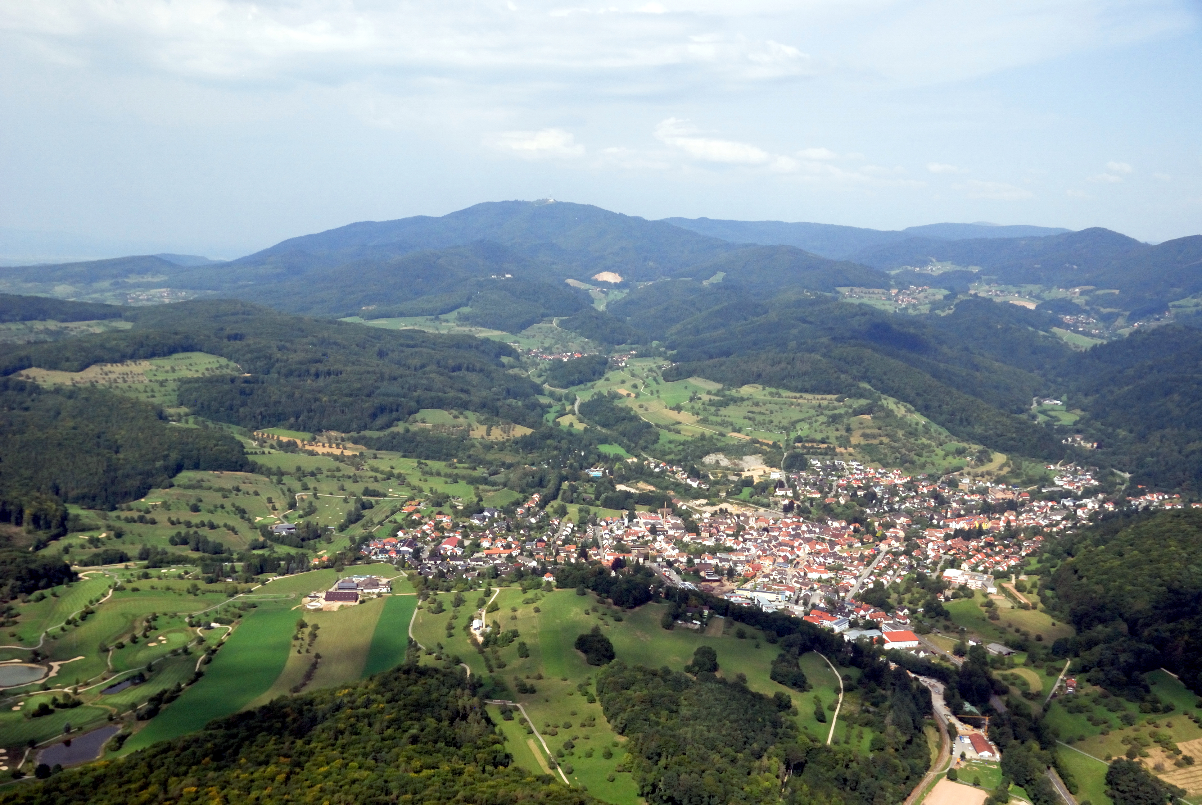 aerial view of Kandern